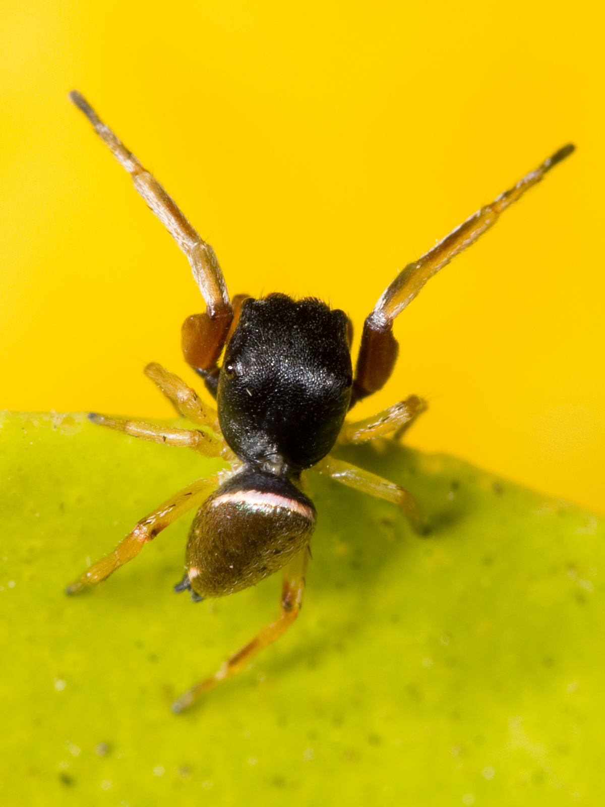 Mature male Zygoaballus rufipes jumping spider found at Reimers Ranch Park, Travis County, Texas.